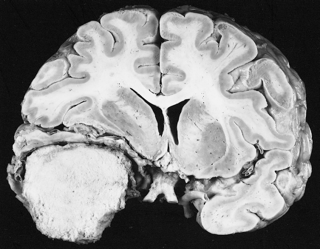 CNS: MENINGIOMA The classic meningioma is a soft, spherical lesion which displaces rather than infiltrates the underlying brain.